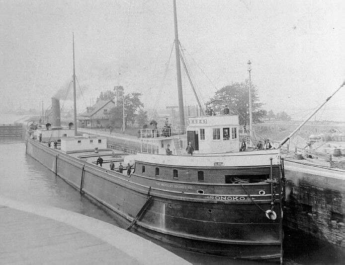 Bow view of the iron hulled steamer Onoko